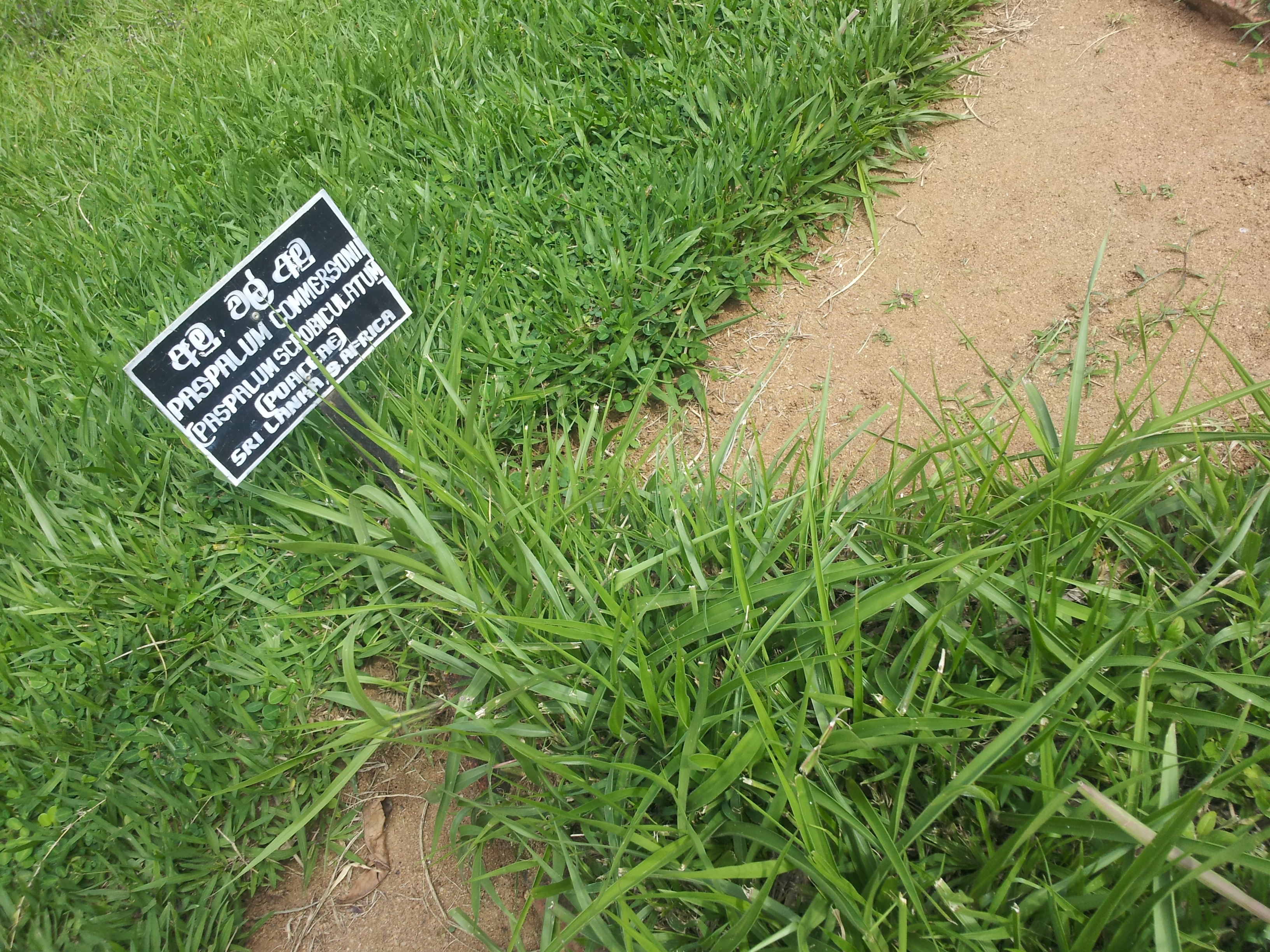 Paspalum commersonii at Peradeniya Royal Botanical Garden